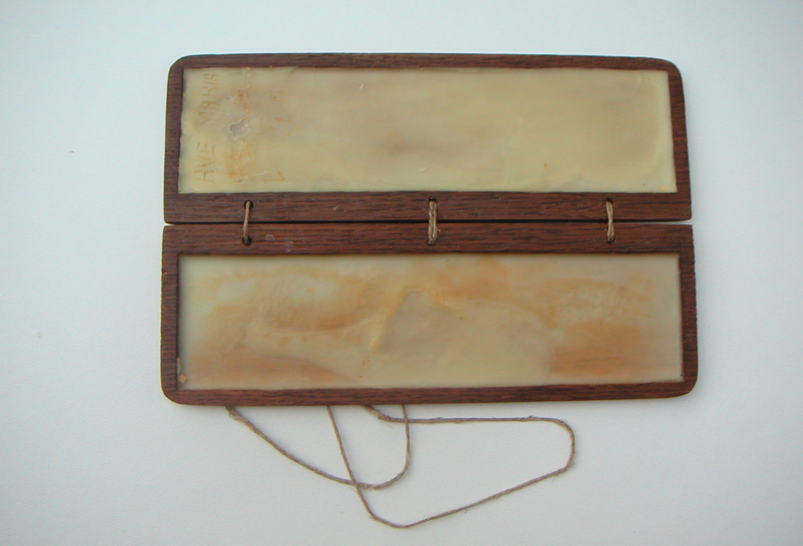 Wax tablet - reproduction Personnal object - Own work - Photography by LessayCatus - 2009 October 29th